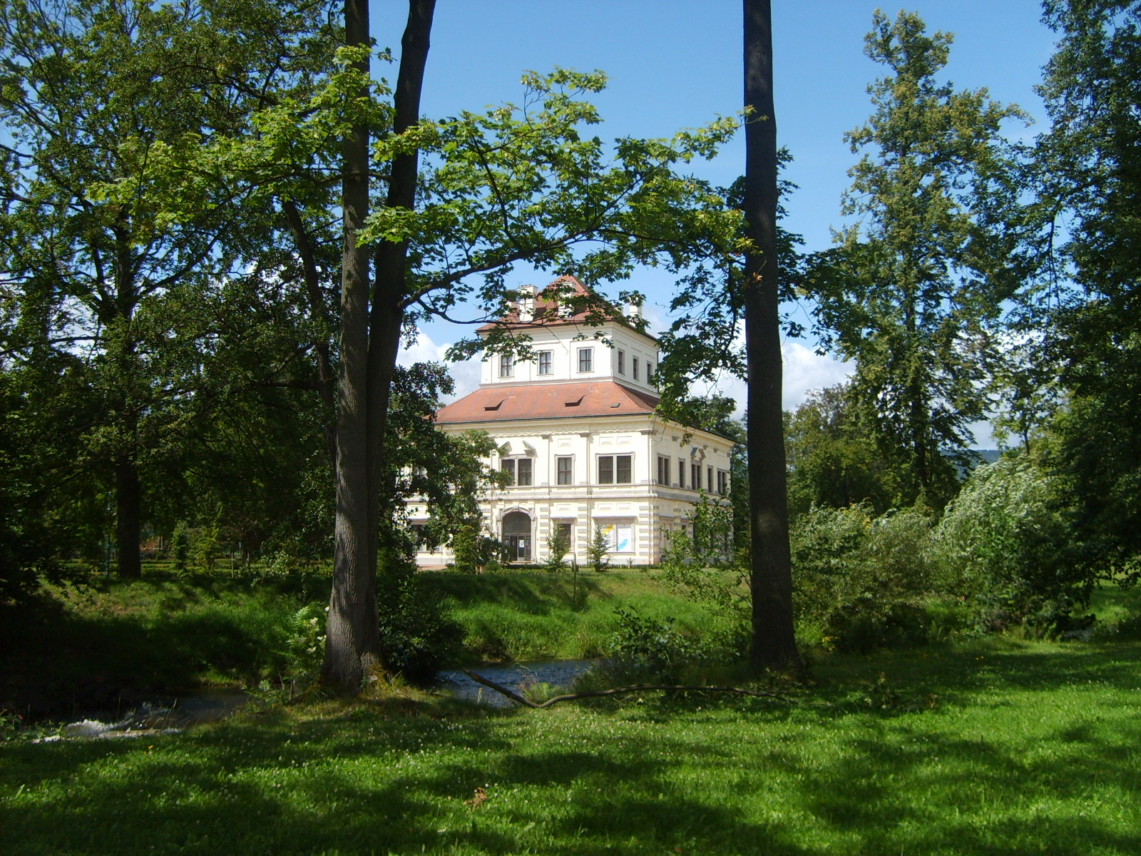 Pleasure house in chateau garden of Ostrov nad Ohří, CZ. Architects: Abraham Leuthner and Christoph Dientzenhofer.